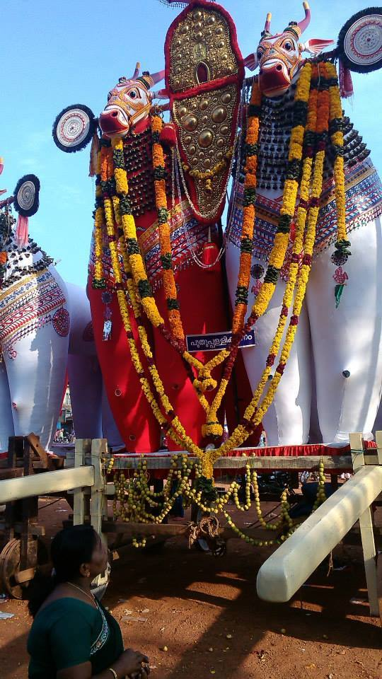 Puthupallikunnam kara kettukala nooranad temple sivarathri